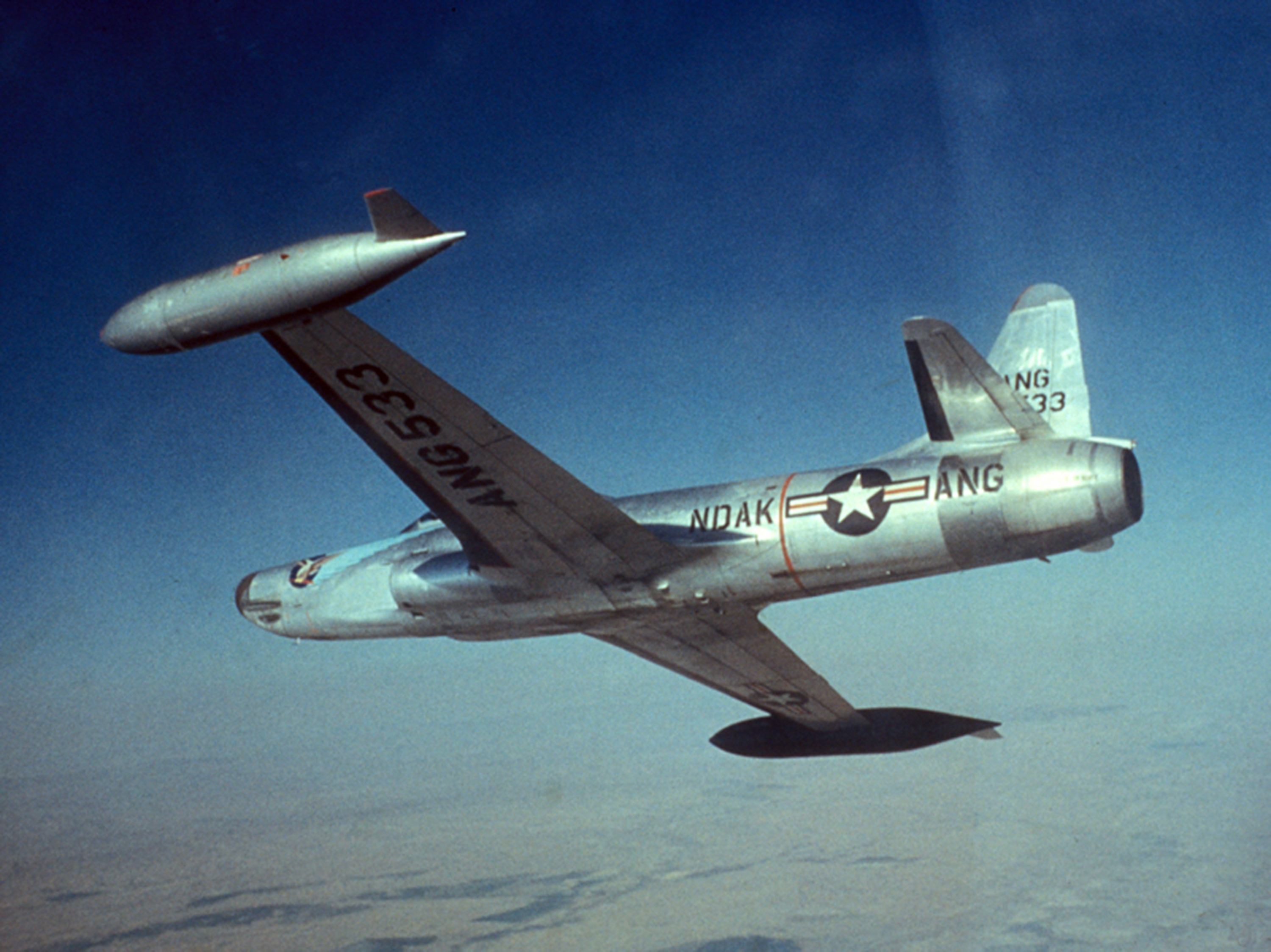 A U.S. Air Force Lockheed F-94A-5-LO Starfire fighter (s/n 49-2533) from the 178th Fighter-Interceptor Squadron, 119th Fighter Group, North Dakota Air National Guard, in flight. The North Dakota Air National Guard flew the F-94 from 1954-1958.